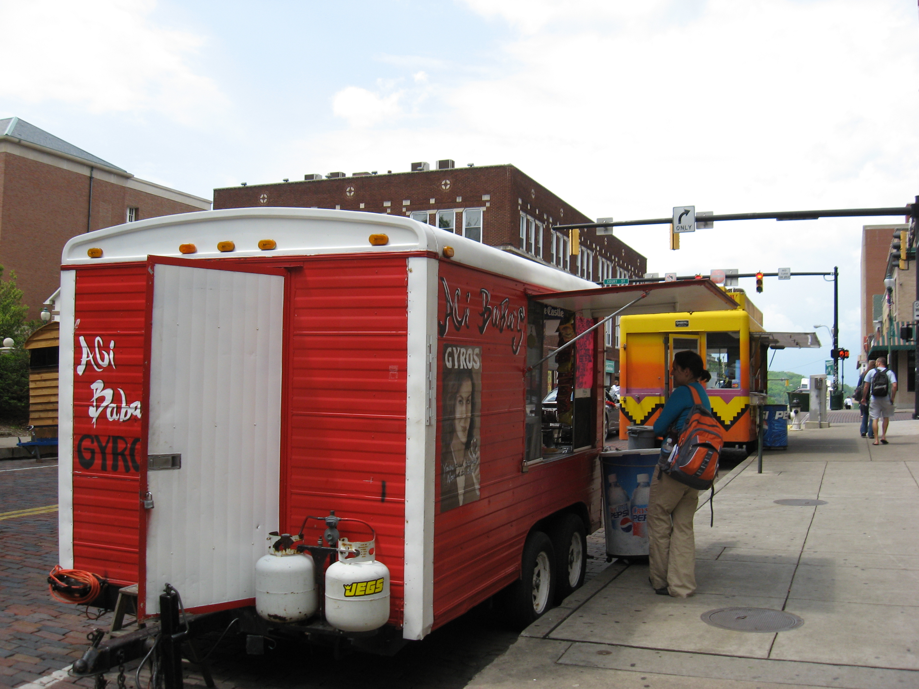 Street carts selling food near Ohio University in Athens, Ohio, USA.